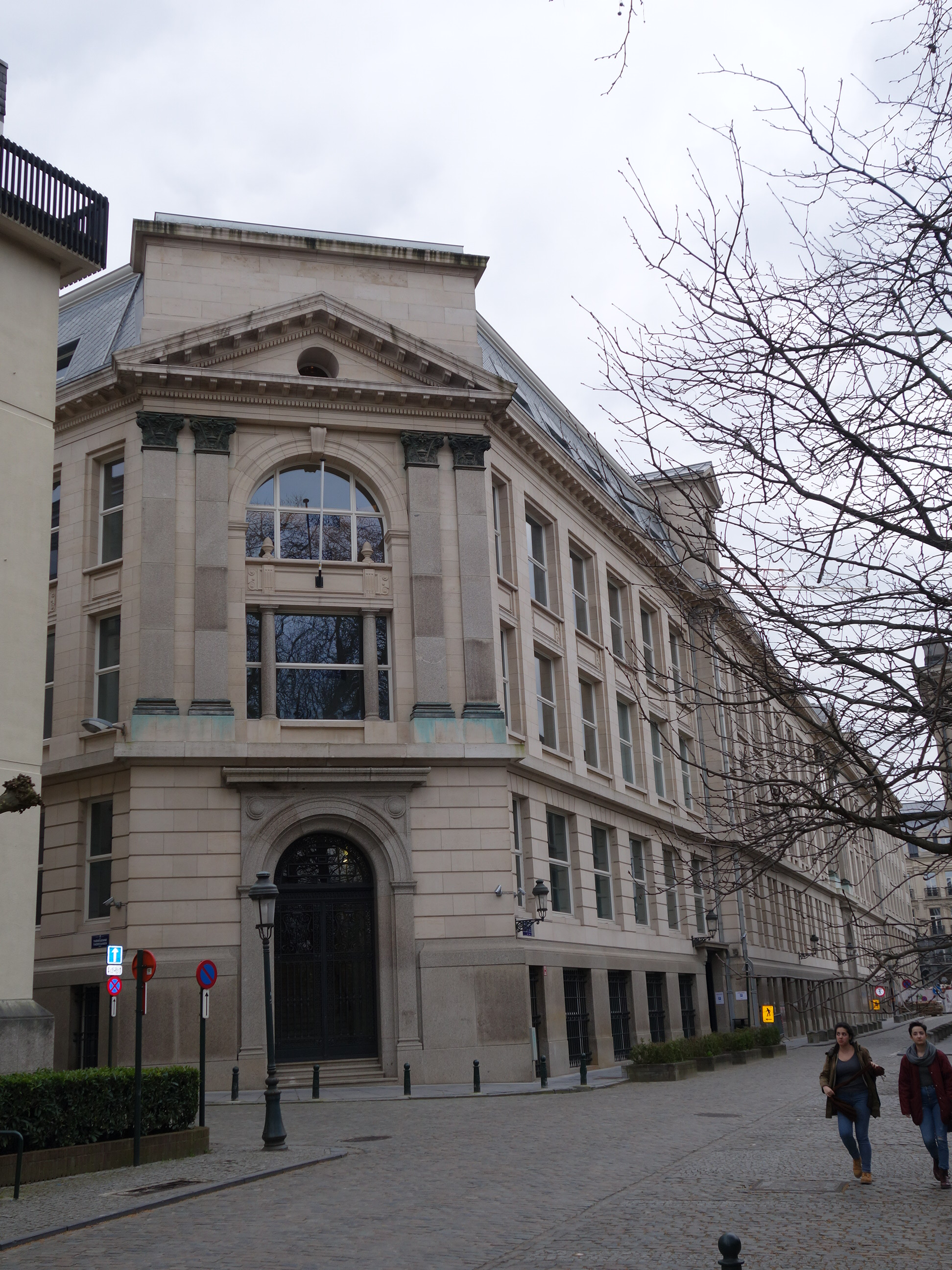 Building of the former Banque d'Outremer (1909)